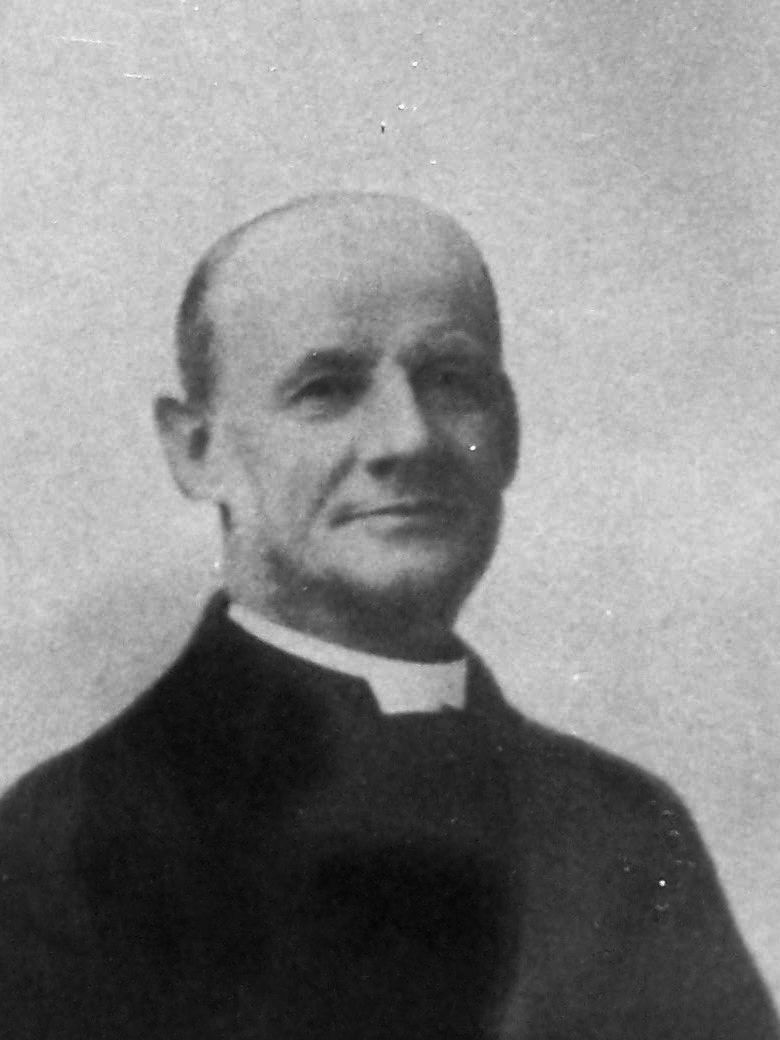 Rev. Edward William Moore, brother of Sylvia Payne